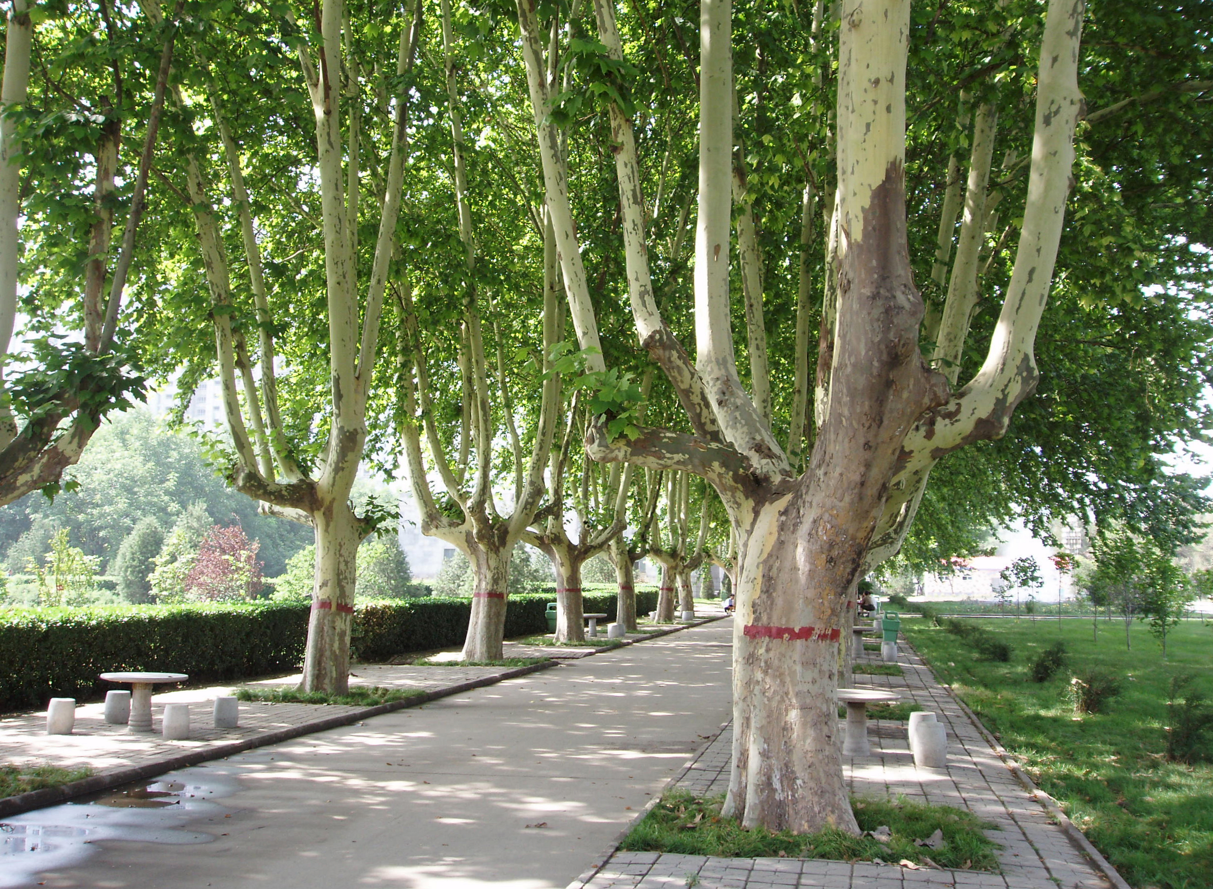 Platanus × hispanica (syn. P. acerifolia) trees